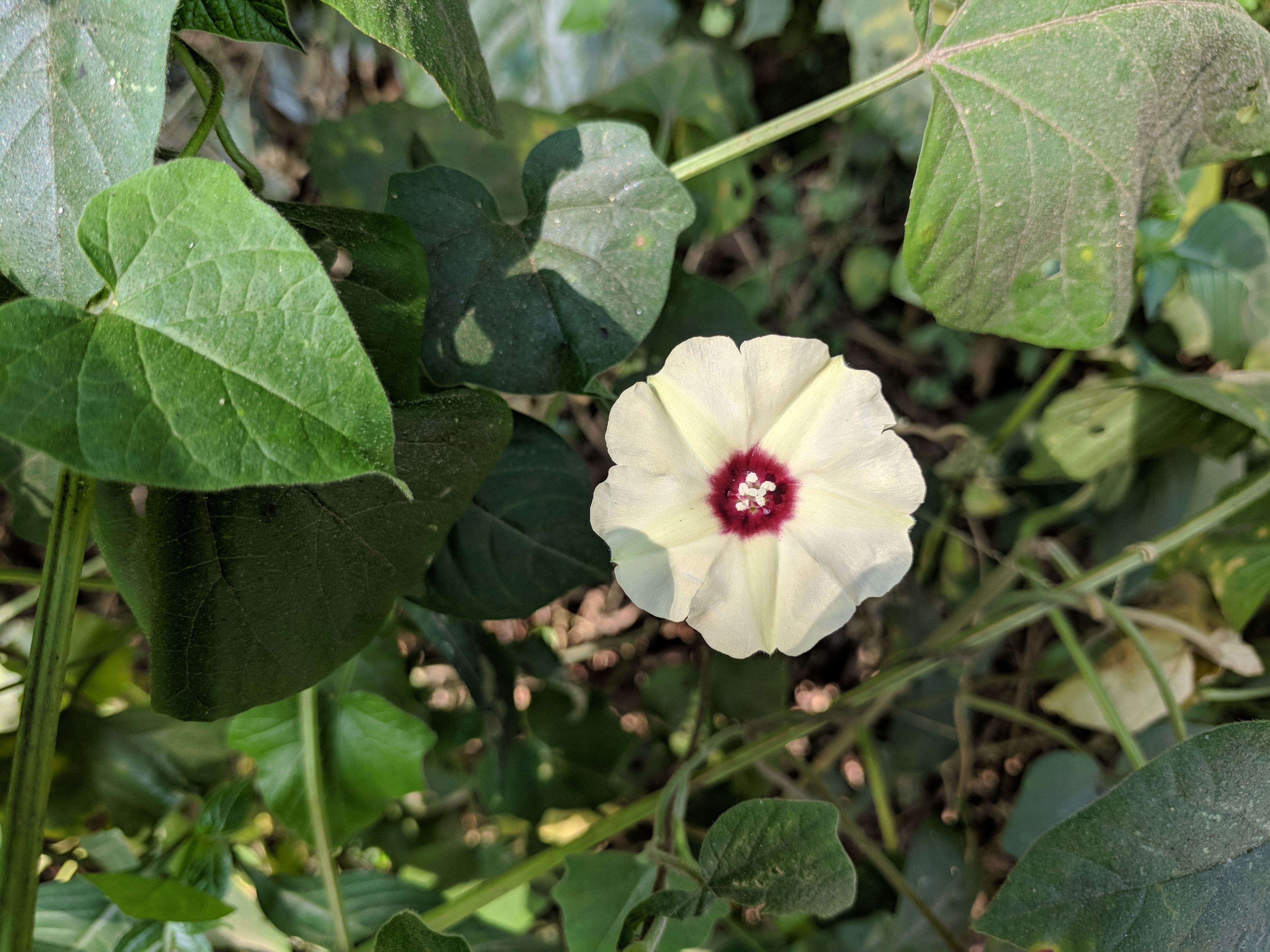 chemanchery